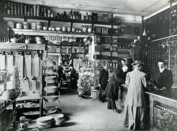 Axel Wiklund hardware store in Turku, early 1900s, Finland.